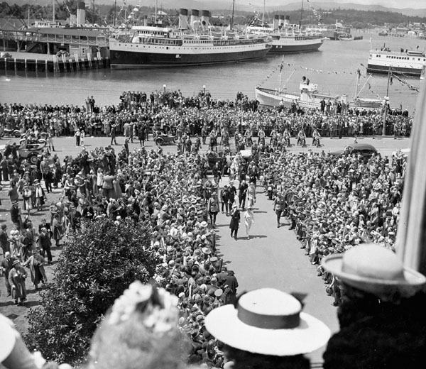 View from British Columbia Leg, upper storey, with heads of people watching and His Majesty King George VI and Her Majesty Queen Elizabeth coming up the walkway, with a view of the harbour of Victoria in the background. (Victoria, Canada).